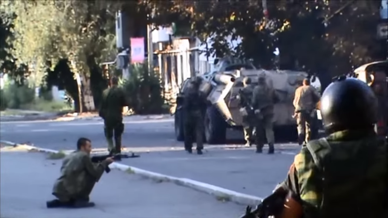 DPR "Motorola's Division" infantry and BTR-80 assaulting Ukrainian Azov and Donbas Battalion positions in Ilovaisk. On the right side is the field commander, Arseny Pavlov.